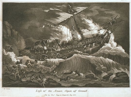 Loss of the Anson Frigate, off Cornwall